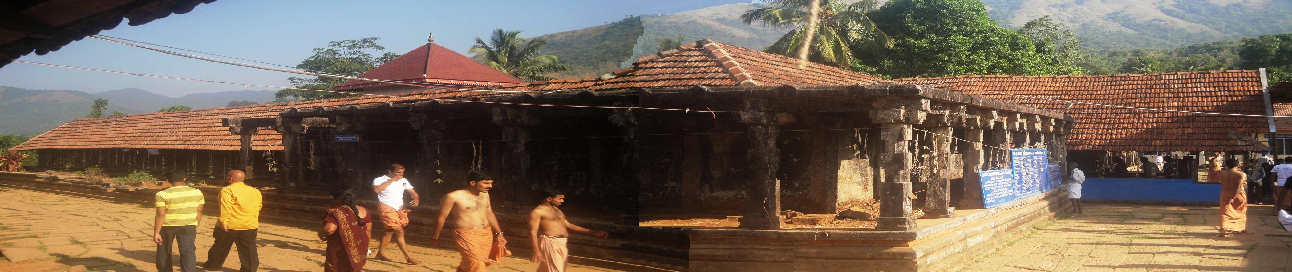 Thirunelli_Maha_Vishnu_Temple.JPG